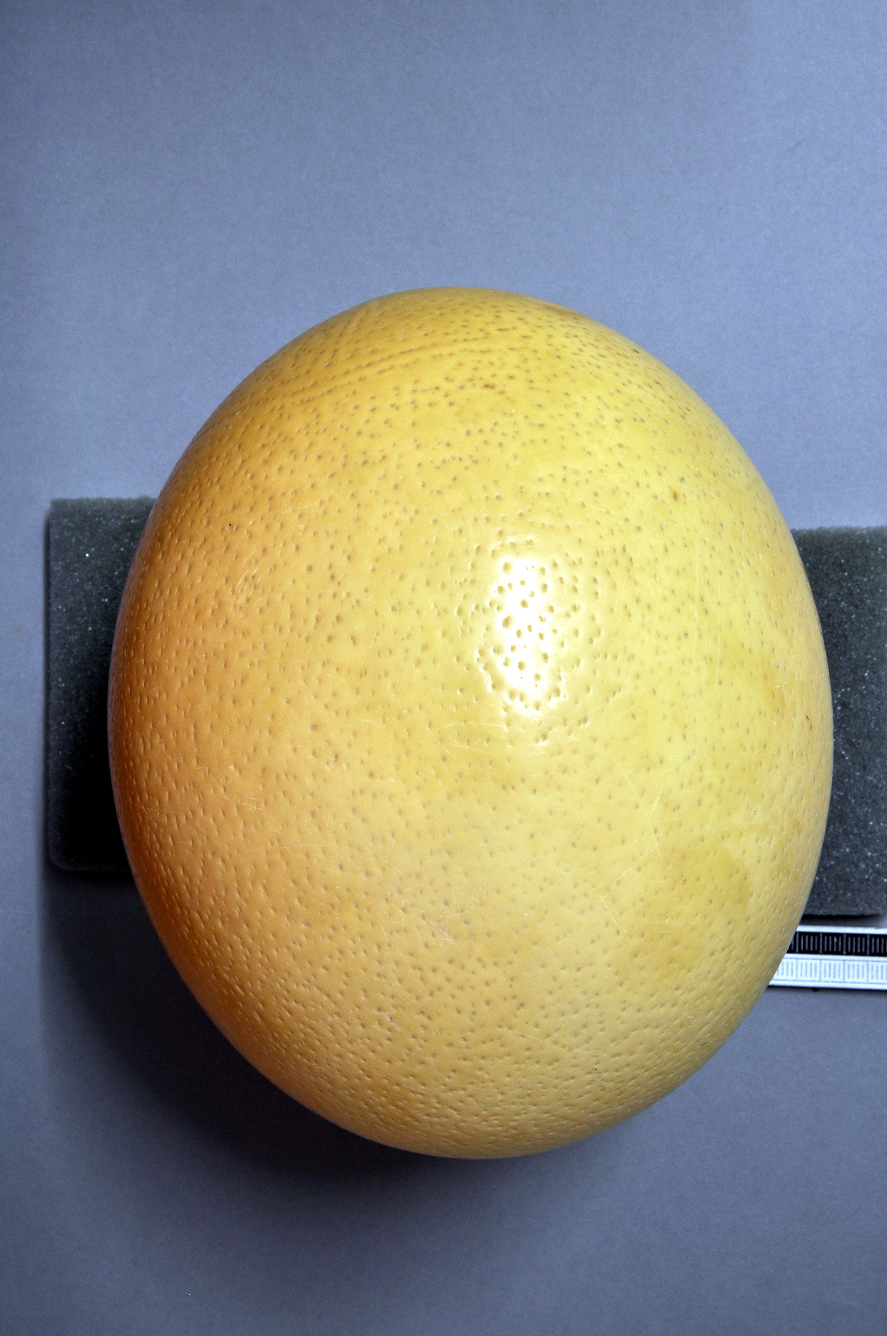 Ostrich Struthio camelus , egg, Coll. Museum Wiesbaden